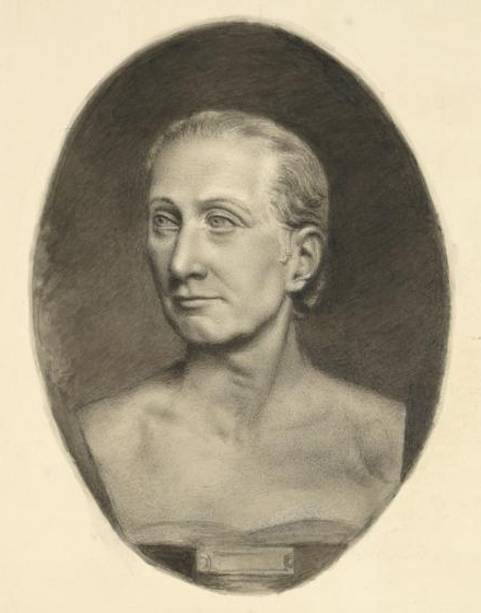 Georg Johann Daniel Poelchau, 1773 - 1836 Musician and collector of music